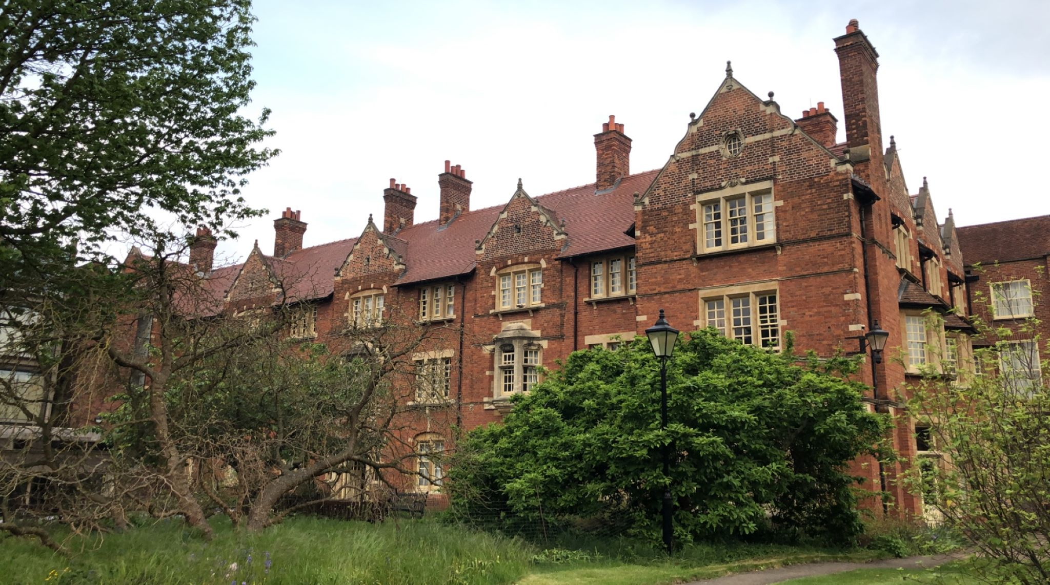 Park Building, Somerville College, University of Oxford, United Kingdom